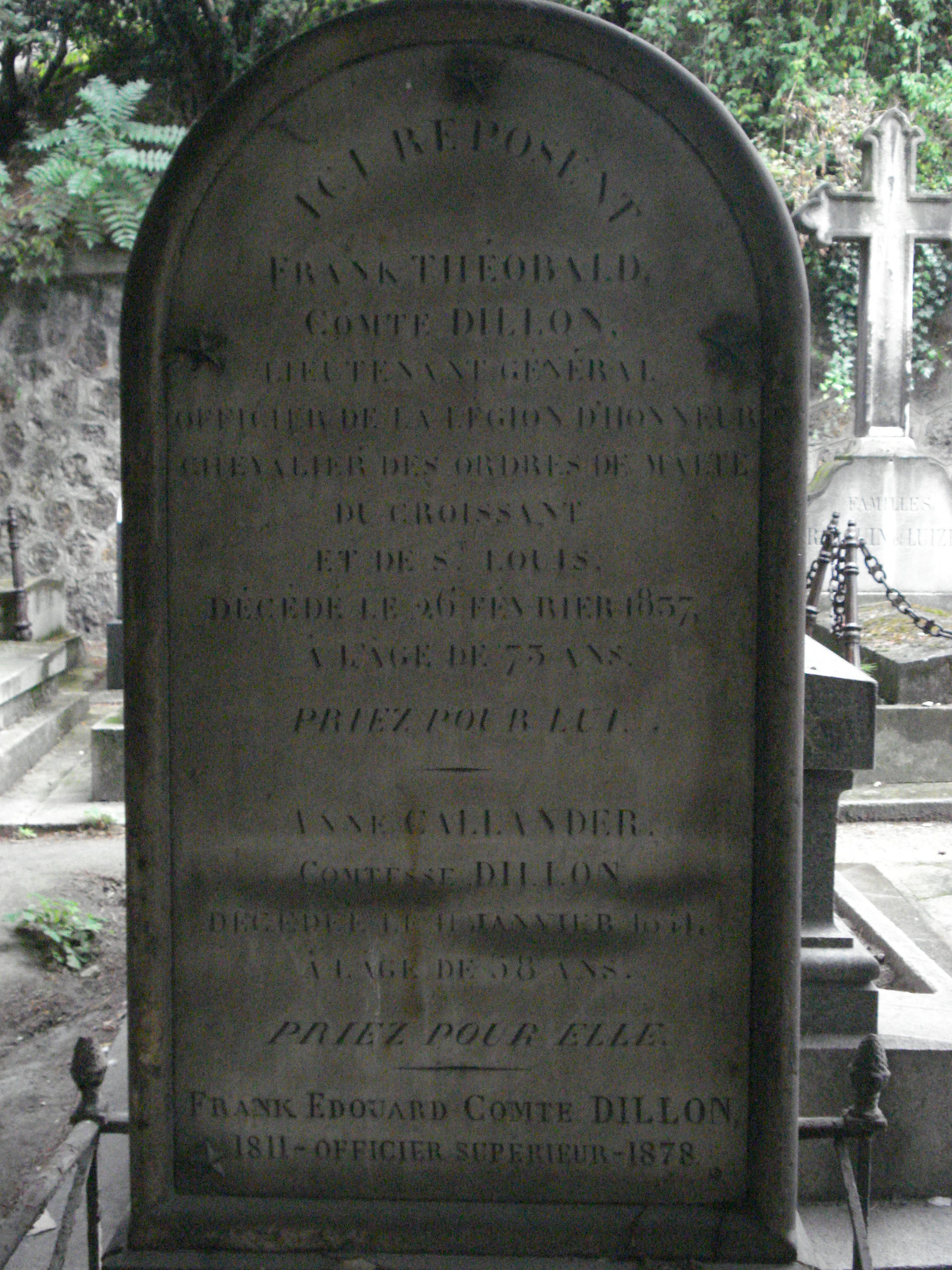 18ème division in Montmartre cemetery ------------------- Franck-Théobald, chevalier de Dillon (1764-1837) officier au régiment de Lauzun-Hussards, puis au régiment de Dillon (1789), maréchal de camp en 1815 CALLENDER Anne (1783-1841), his wife Franck-Édouard Comte Dillon, (1811-1878) Family of : Arthur Dillon, Count Dillon (1670 in the county of Roscommon – 7 February 1733 at St Germain en Laye) was a Jacobite soldier from Ireland who served in the French army